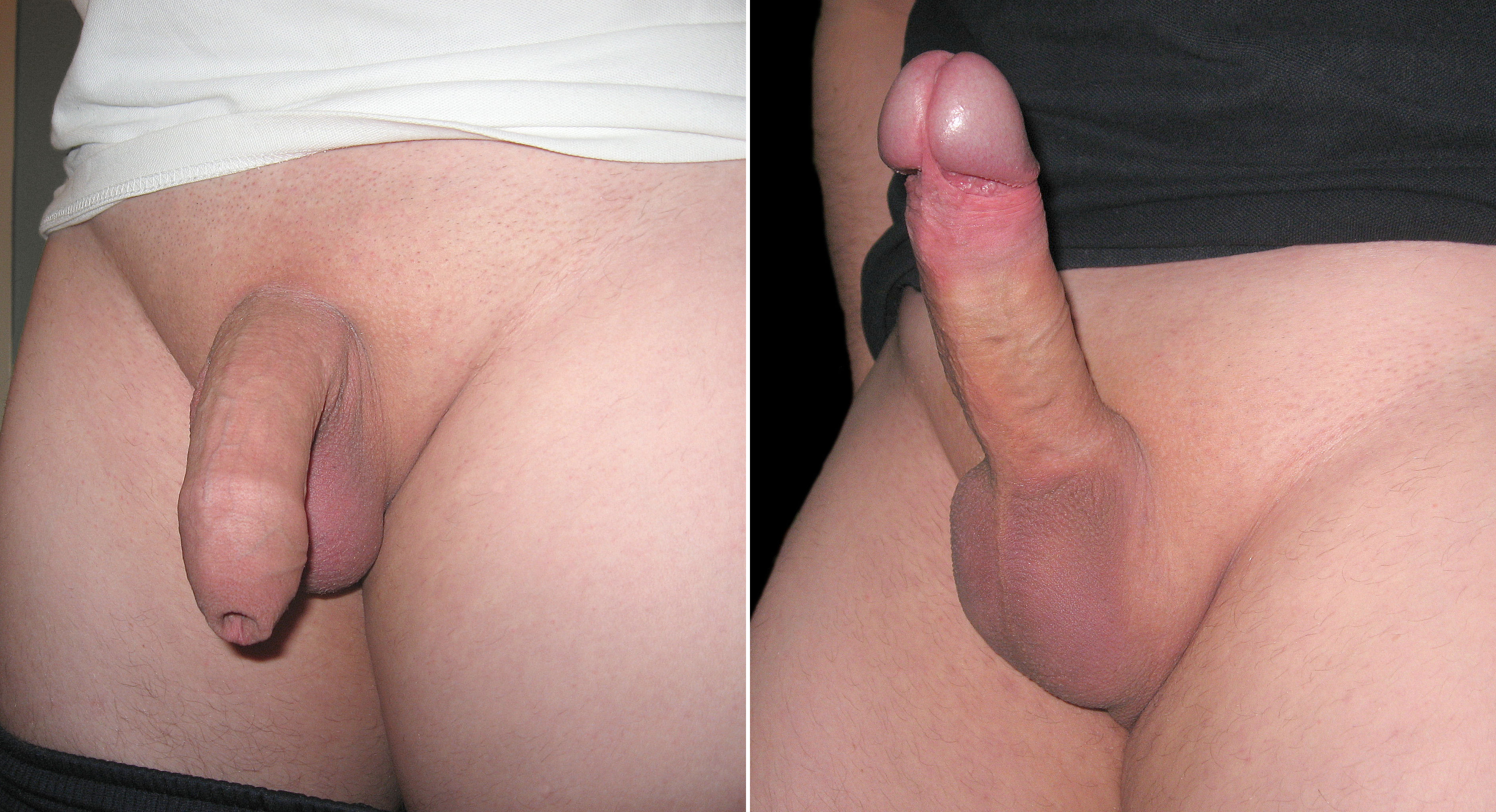 Flaccid and erect penis.